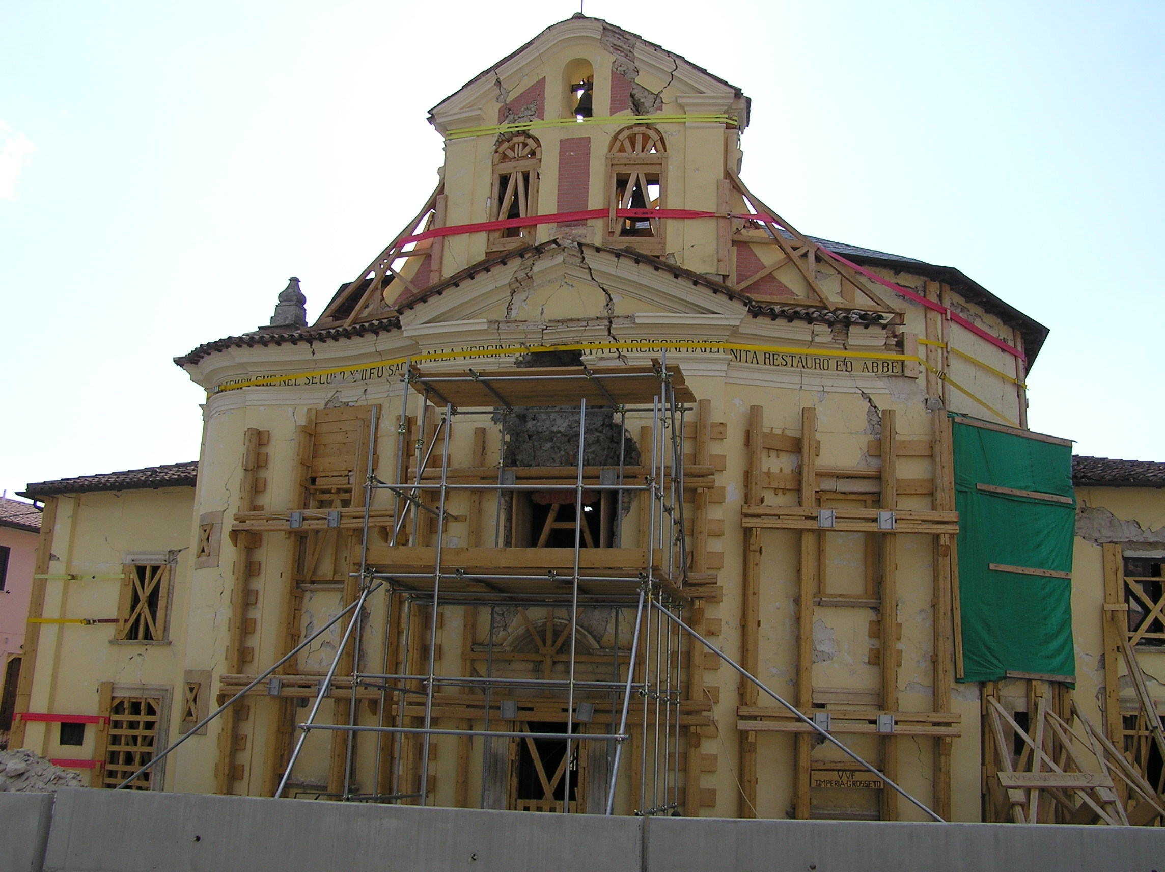 Church in Paganica after L'Aquila earthquake